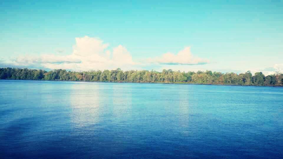 Desembocadura en el océano